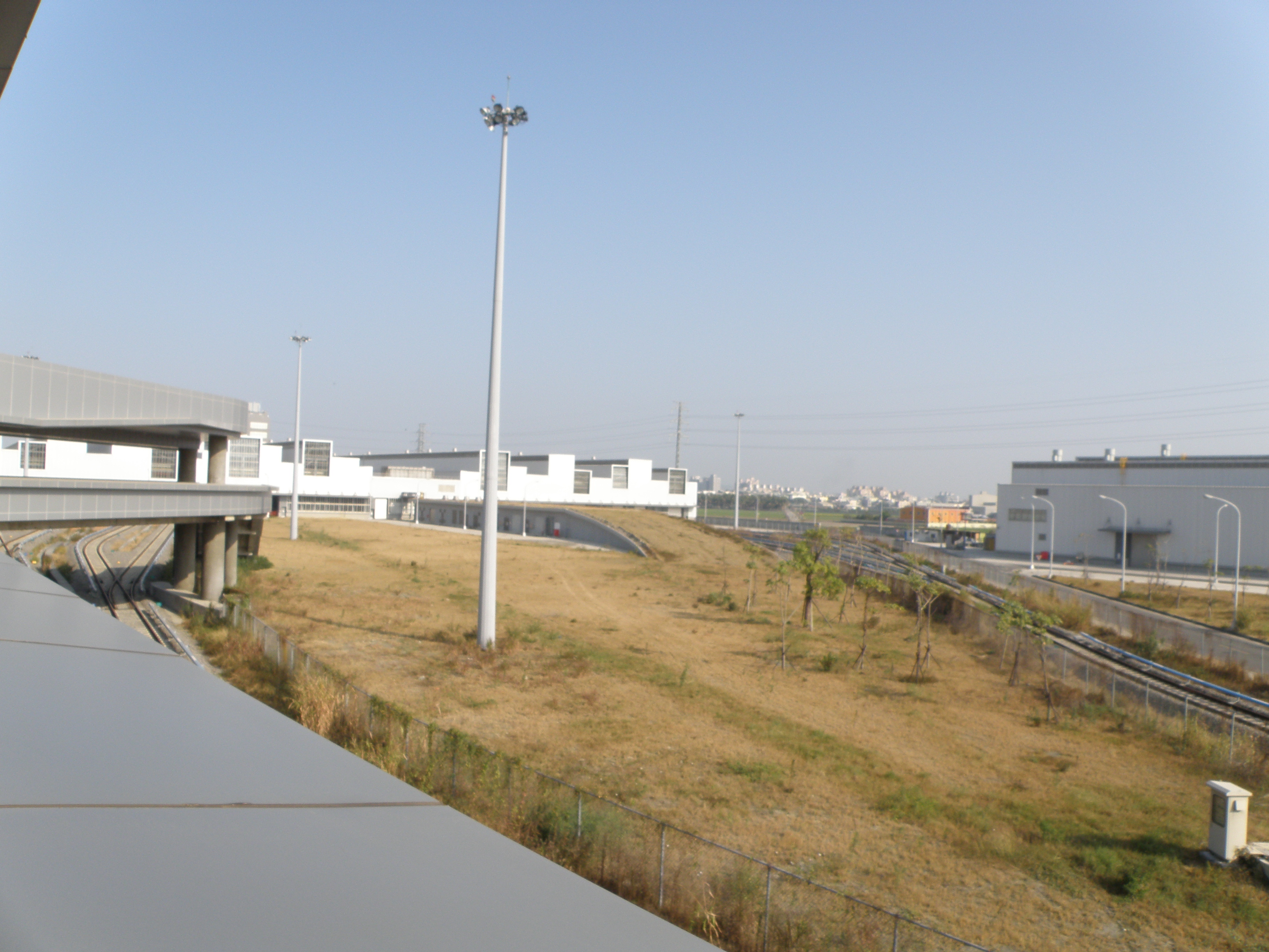 Daliao Depot